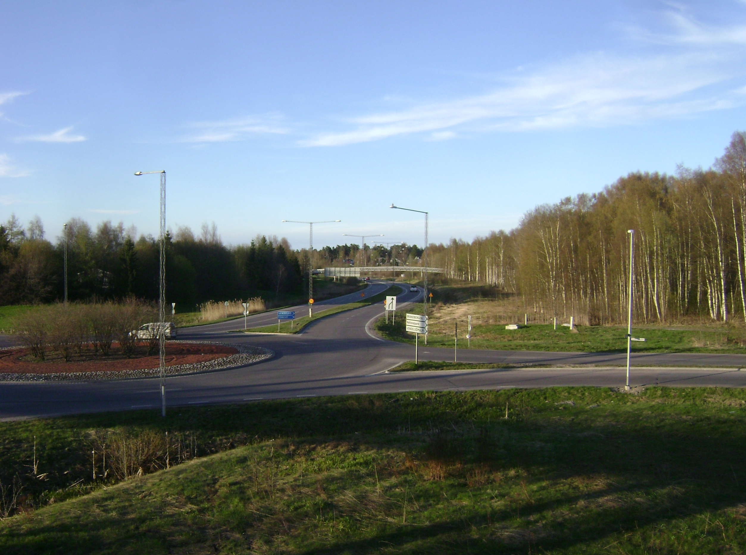 Sweden. Stockholm County. Haninge Municipality